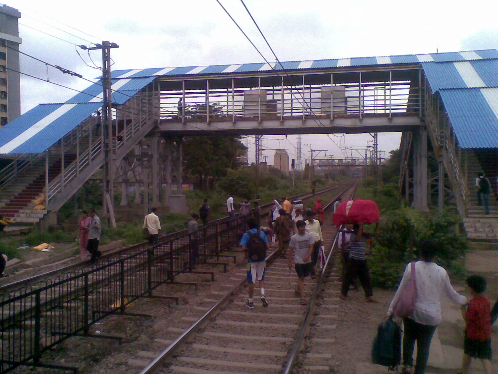 A new Foot over bridge consructed over railway tracks at Tilak Nagar Station. Mumbai. India